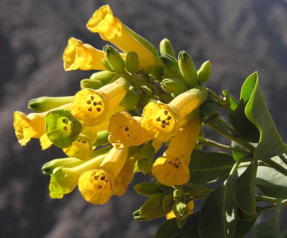 Tree Tobacco is known in South America as Palqui or as Palan-palan. In context at